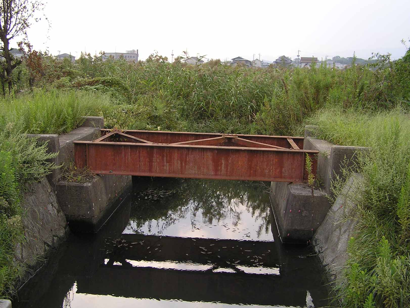 Iron bridge mark in Tamashima Rinko railway that ended in unfinished Iron bridge mark in Tamashima Rinko railway that ended in unfinished Iron bridge mark in Tamashima Rinko railway that ended in unfinished line